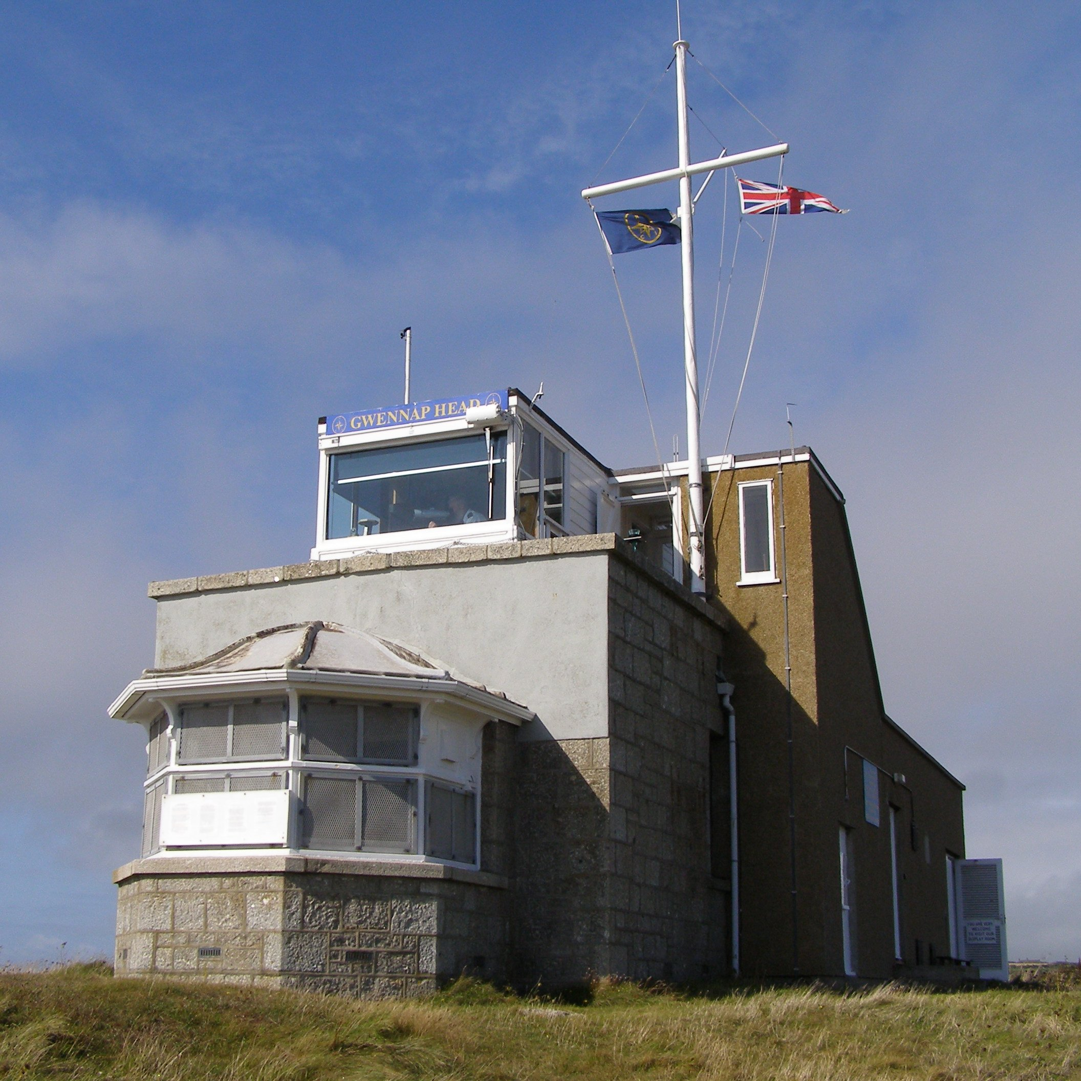 National Coastwatch Institution station on Gwennap Head near Porthgwarra, Cornwall.